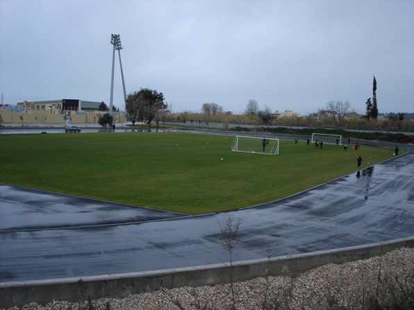 Pampeloponisiako Stadium in Greece.